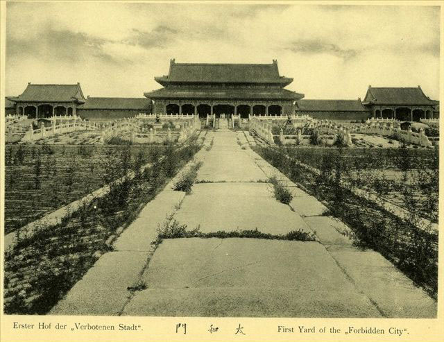 old photo from China 1900-1903, see the file's name for detail.